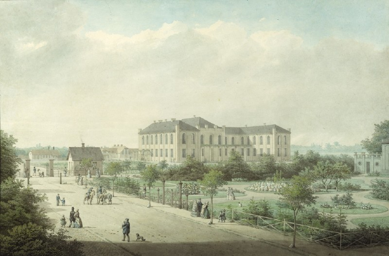 Bülowsvej and Landbohøjskolen in Frederiksberg, Denmark